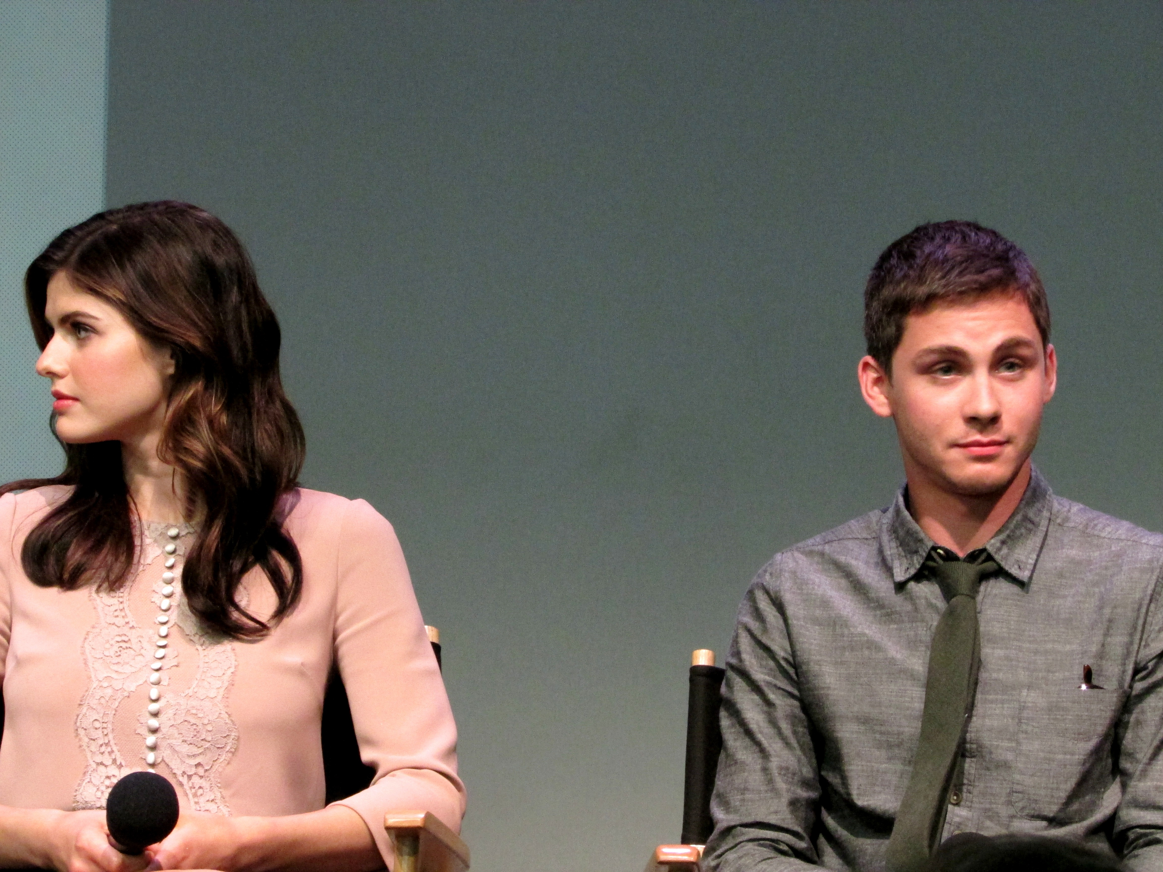 Logan Lerman and Alexandra Daddario attend the Apple Store Soho Presents: Meet the Filmmakers ‘Percy Jackson: Sea Of Monsters’ at Apple Store Soho on July 29, 2013 in New York City.